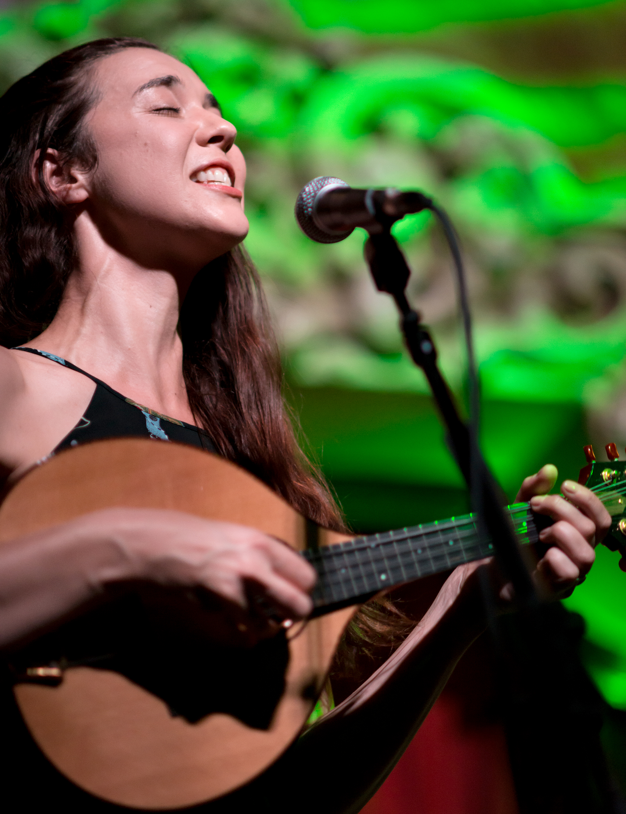 Lisa Hannigan performing at School Night at Bardot Hollywood, in Los Angeles, California, on Monday, October 16, 2017. Part of Ireland Week.